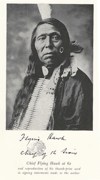 Chief Flying Hawk at 62 and Thumbprint Other information No. This work is in the public domain because it was published in the United States between 1923 and 1963 and although there may or may not have been a copyright notice, the copyright was not renewed. Unless its author has been dead for the required period, it is copyrighted in the countries or areas that do not apply the rule of the shorter term for US works, such as Canada (50 pma), Mainland China (50 pma, not Hong Kong or Macao), Germany (70 pma), Mexico (100 pma), Switzerland (70 pma), and other countries with individual treaties. See Commons:Hirtle chart for further explanation.